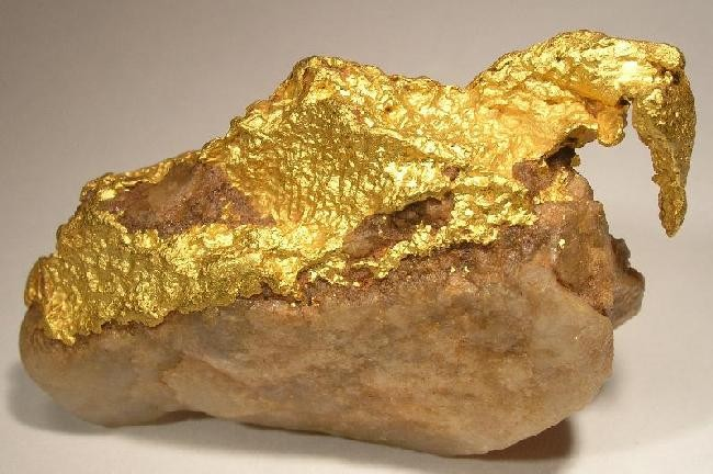 Gold Locality: Victoria Gold Mine, Montacute, South Mt Lofty Ranges, Mt Lofty Ranges, South Australia, Australia (Locality at ) Size: miniature, 4.9 x 3.1 x 2.2 cm Gold A dramatic specimen of thick, wide vein gold in the shape of a swan perched atop matrix. The color and luster is very bright and with a brassy patina free from harsh chemical cleaning. It has an unusual look and comes from an unusual locality, according to my source in Australia from whom I obtained it (Rob Sielecki, may years ago). The gold sits very attractively on just the right amount of matrix and is really 3-dimensional. Overall, a superb miniature and quite a rare matrix specimen in that the gold is on the rock as opposed to intertwined with it as usual. Weighs 51 grams, of which most of that is gold.